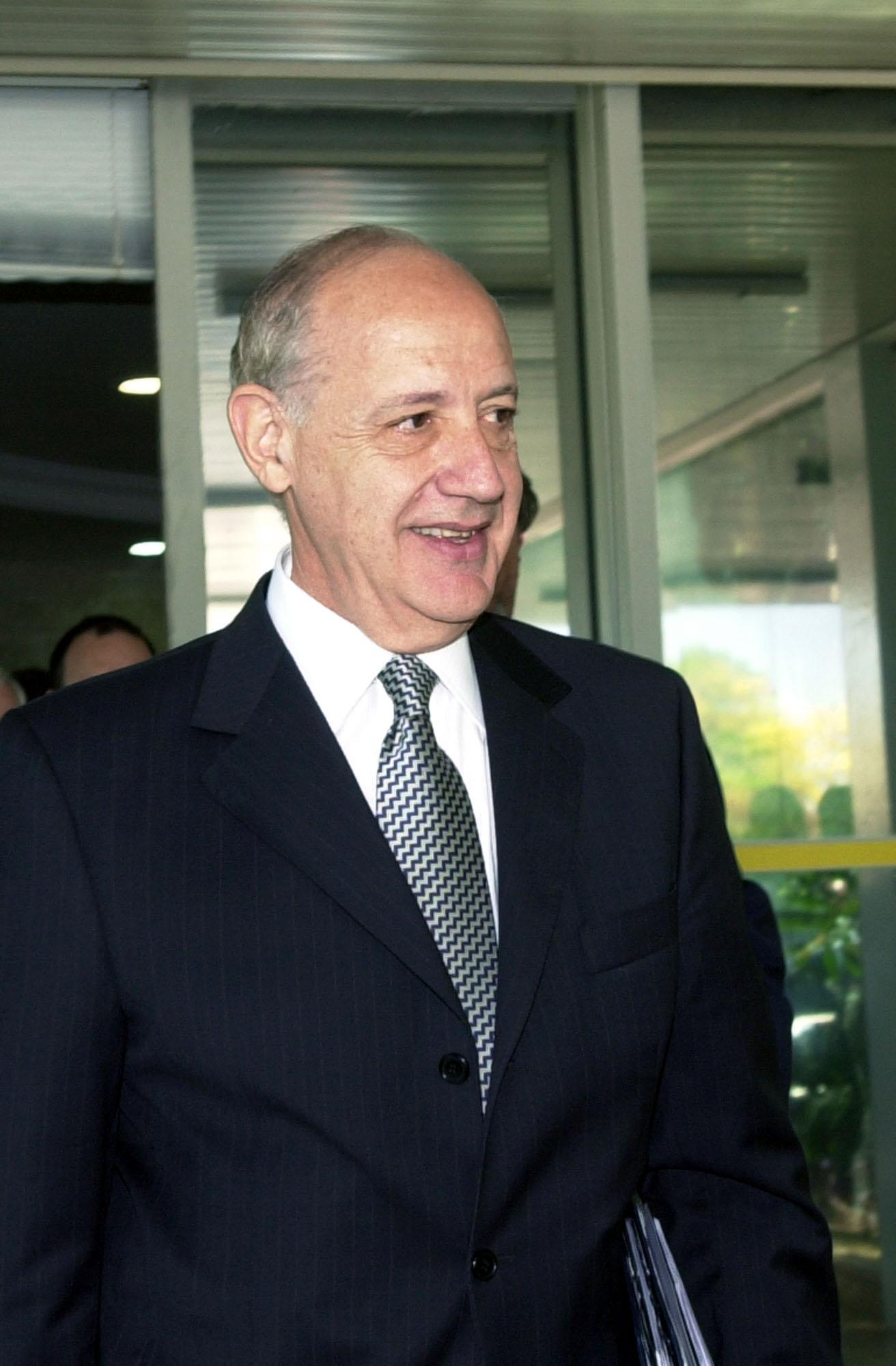 Roberto Lavagna, Argentina's Economy Minister.